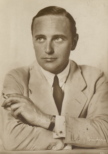 German actor Harry Liedtke, by Foto Binder, Ross card number 284/1